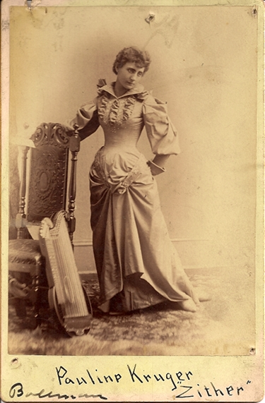 Pauling Kruger Hamilton poses with her zither in 1893.